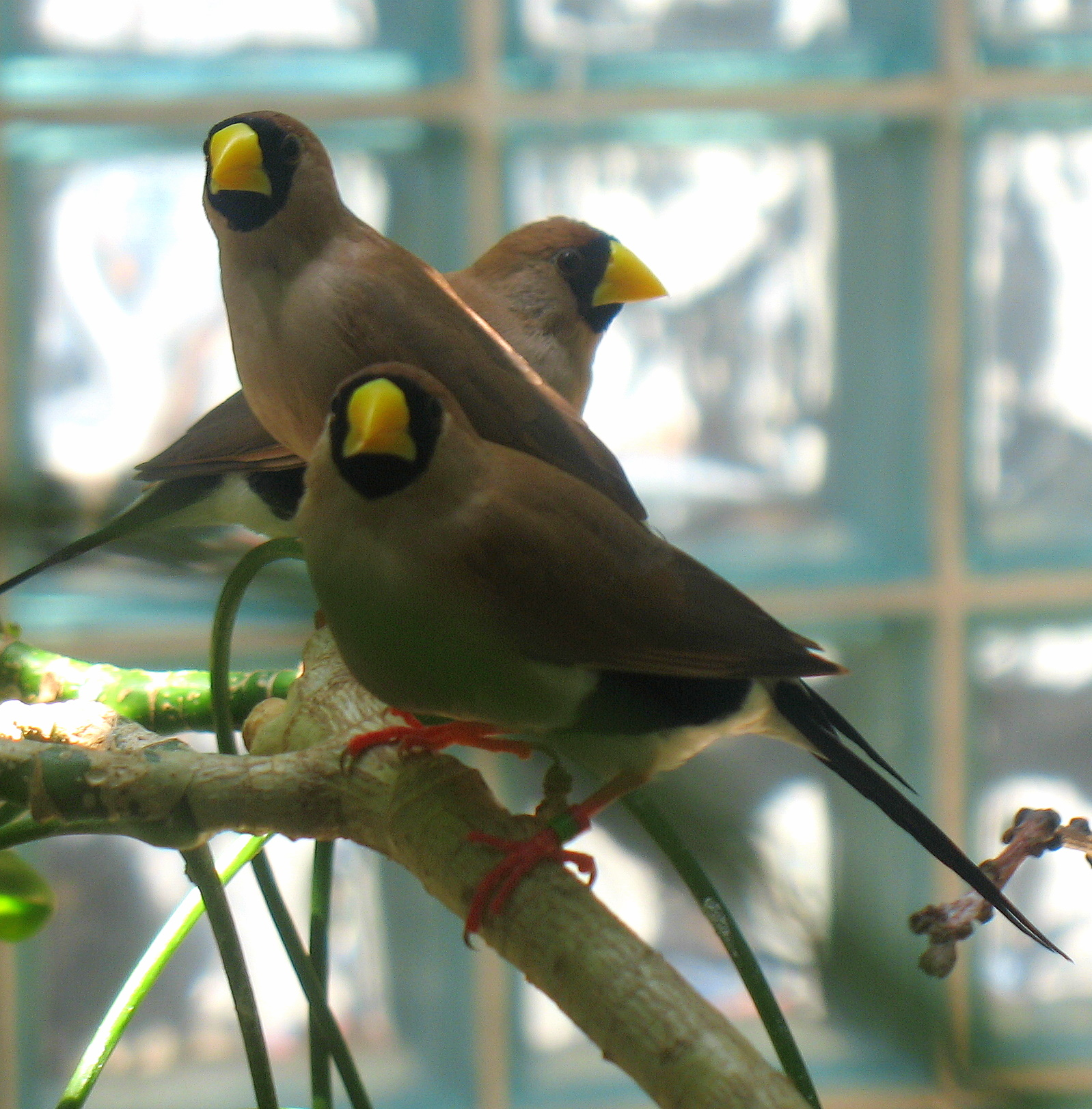 Three adult Masked Finches at Toledo Zoo, Ohio, USA.